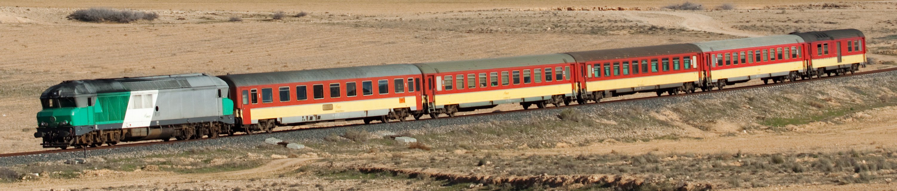 ONCF class DF 115 (number 117, former SNCF number 72085), still carrying the SNCF FRET colors (the logos have been removed though), near Taourirt, Morocco. The train is on its way to Nador, but has not yet reached the junction where the line to Nador branches from the line to Taza.